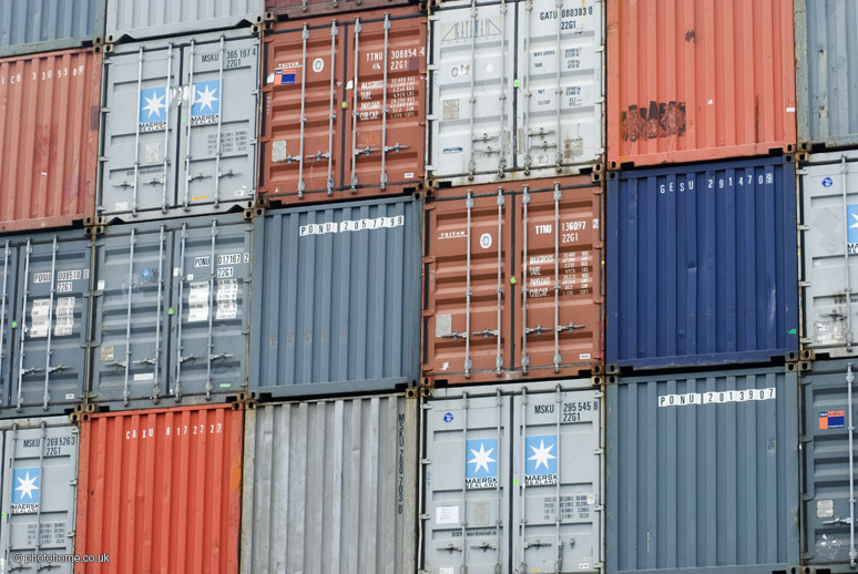 shipping containers at clyde